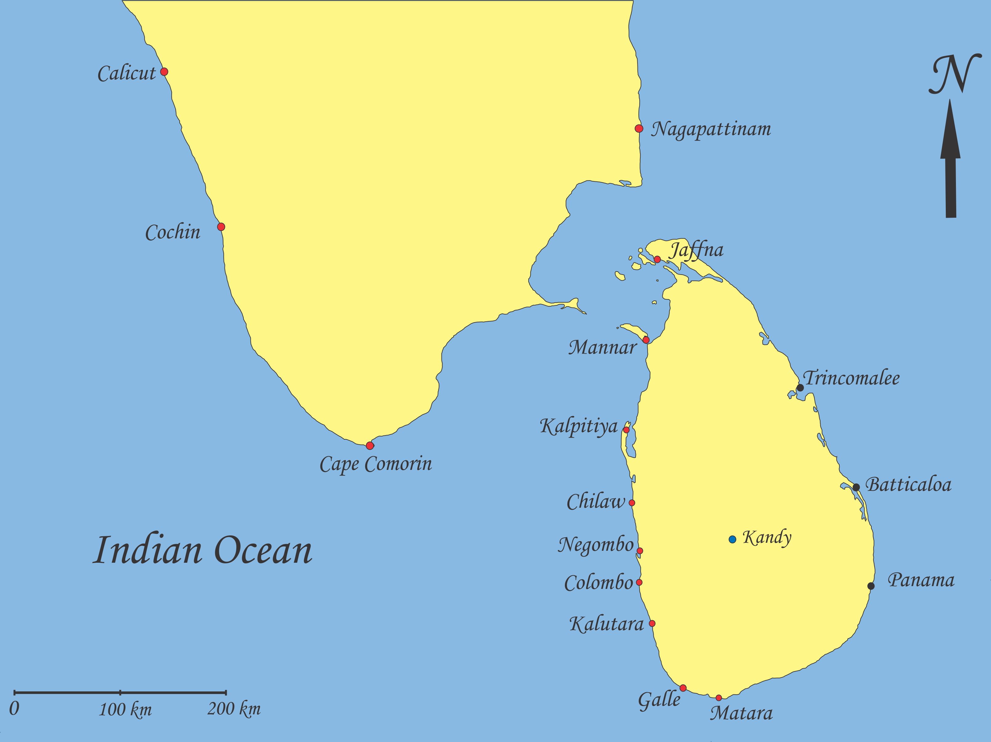 Map of Sri Lanka and South India showing locations important to the Kandyan Naval raid. Portuguese naval bases are shown in red while Kandyan naval bases are shown in Black. Capital Of the Kingdom of Kandy is shown in Blue.